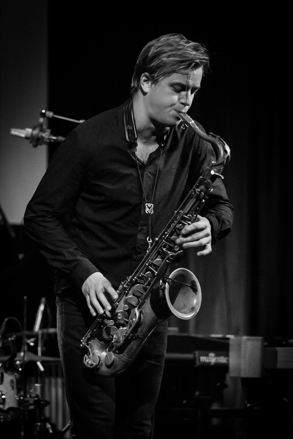 Marius Neset performs at Victoria Teater during Oslo Jazzfestival 2015. Band members: Marius Neset - Saksofoner, Frans Petter Eldh - Kontrabass, Anton Eger - Trommer, Jim Hart - Vibrafon, Ivo Neame - Piano/Keyboard